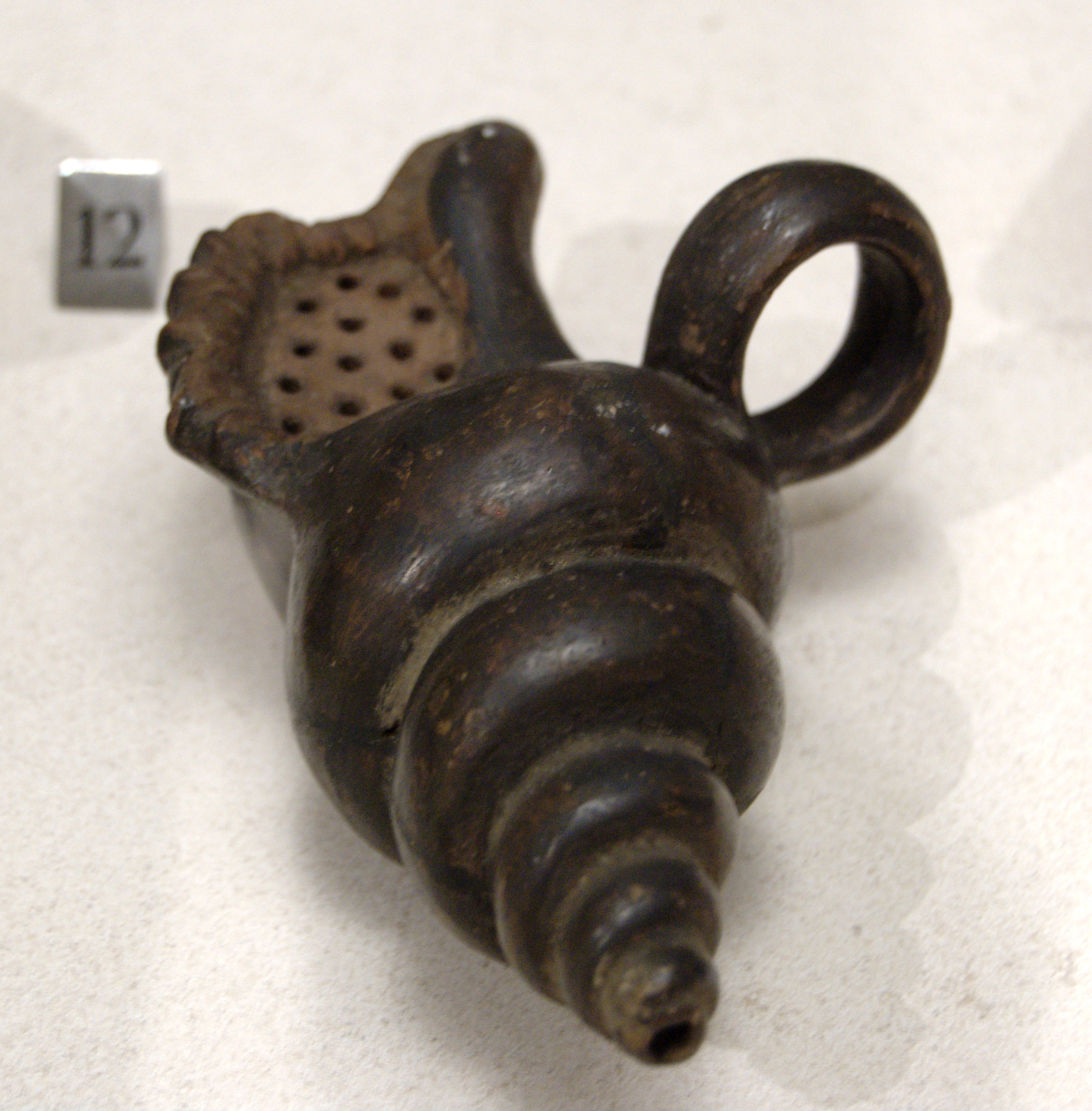 Apulian guttus in shape of murex shell, 2nd half of the 4th century BC.